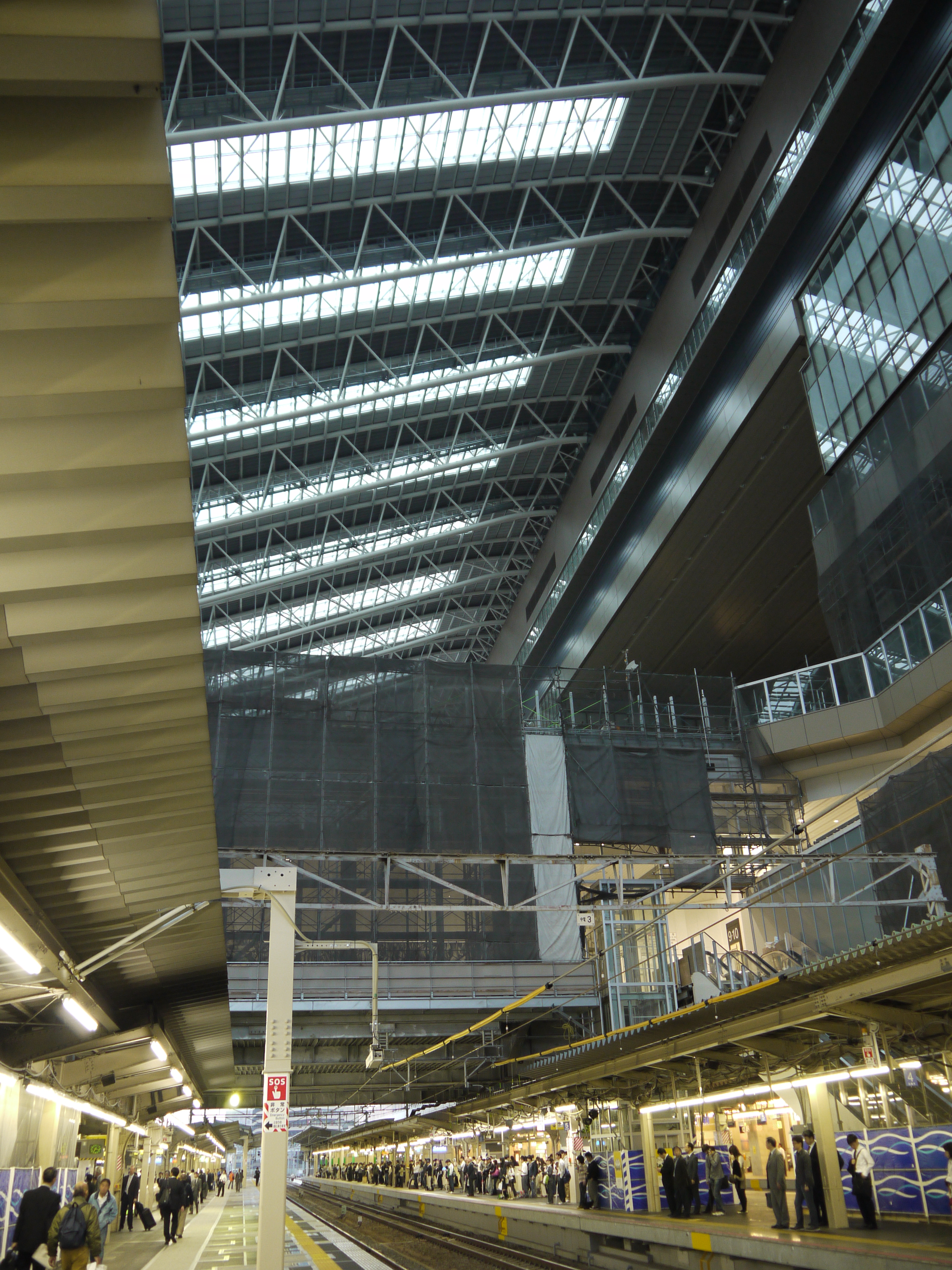 Osaka Station